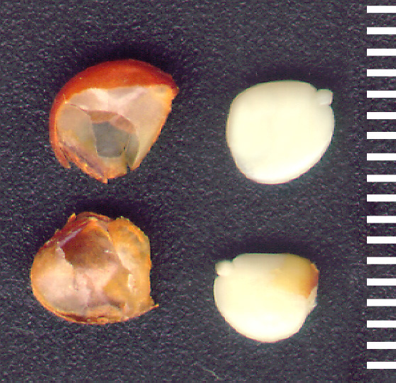 Sorbus domestica embryos explanted